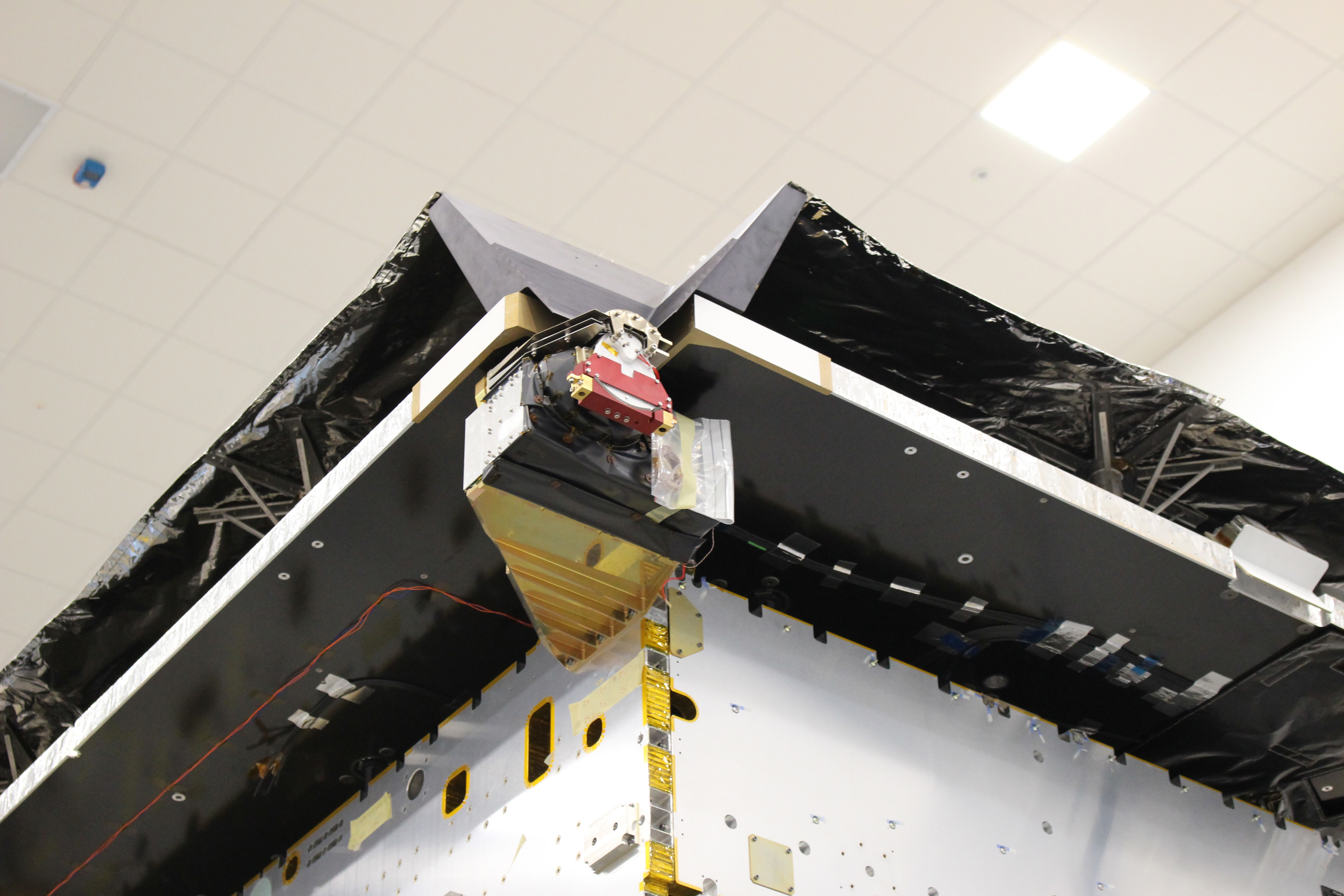 The PAS sensor. This is part of a set of photos showing the Solar Orbiter Structural Thermal Model (a full scale model of the spacecraft, which will be used for testing), taken at the Airbus Defence & Space facility in Stevenage in March 2015. Photo credit: O. Usher (UCL MAPS)